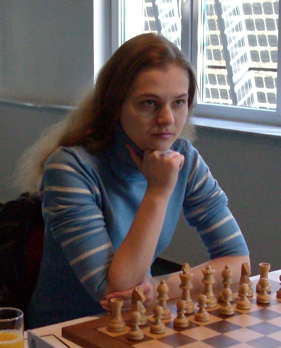 Anna Muzychuk, chess player